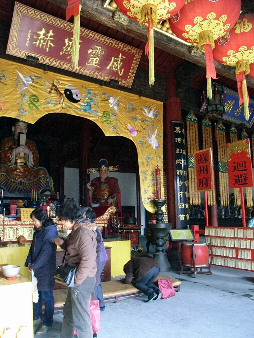 Worshipping within the City God Temple of Suzhou, Jiangsu, China.